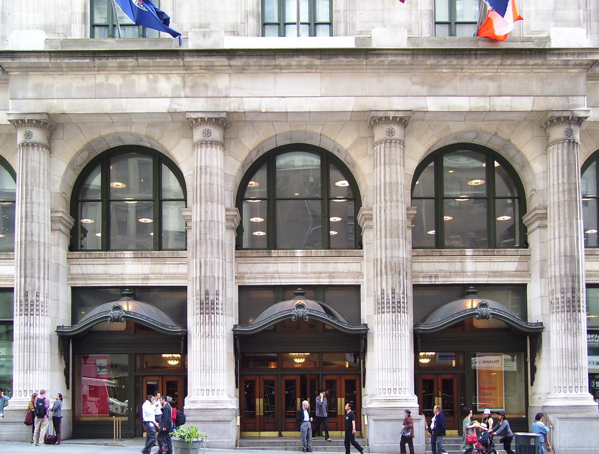 The B. Altman & Company Building at 351-57 Fifth Avenue from East 34th to 35th Streets, through to 188-89 Madison Avenue, was built in stages from 1906-1913, designed by Trowbridge & Livingston in Italian Renaissance style. Altman's was the first big department store to make the move from the "Ladies' Mile" shopping district, where the dry goods emporia had been located, to Fifth Avenue. The neighborhood was still primarily residential at the time, and the design of the new building was planned to fit in with the palatial mansions around it. Following Altman's example, the other big stores followed and made the move uptown as well. The store close in 1989, and was vacant until 1996, when the exterior was restored by Hardy Holzman Pfeiffer and the interior reconfigured by Gwathmey Siegel & Associates for the City University of New York Graduate Center on the Fifth Avenue side, the New York Public Library's the Science, Industry and Business Library on the Madison Avenue sie, and the Oxford University Press. (Source: AIA Guide to NYC (4th ed.) and Guide to NYC Landmarks (4th ed.))